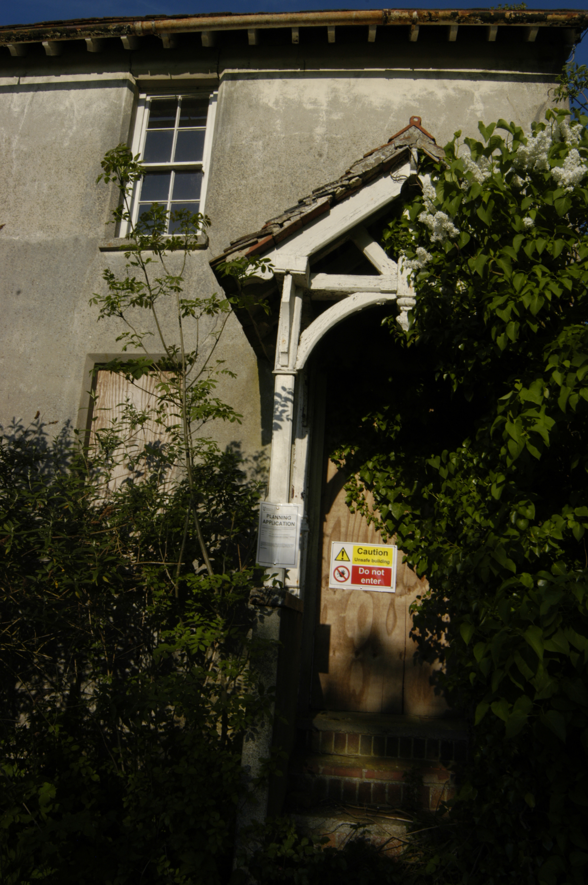 Western porch of the circa 1872 Concrete Cottages, Old Burghclere, May 2018.